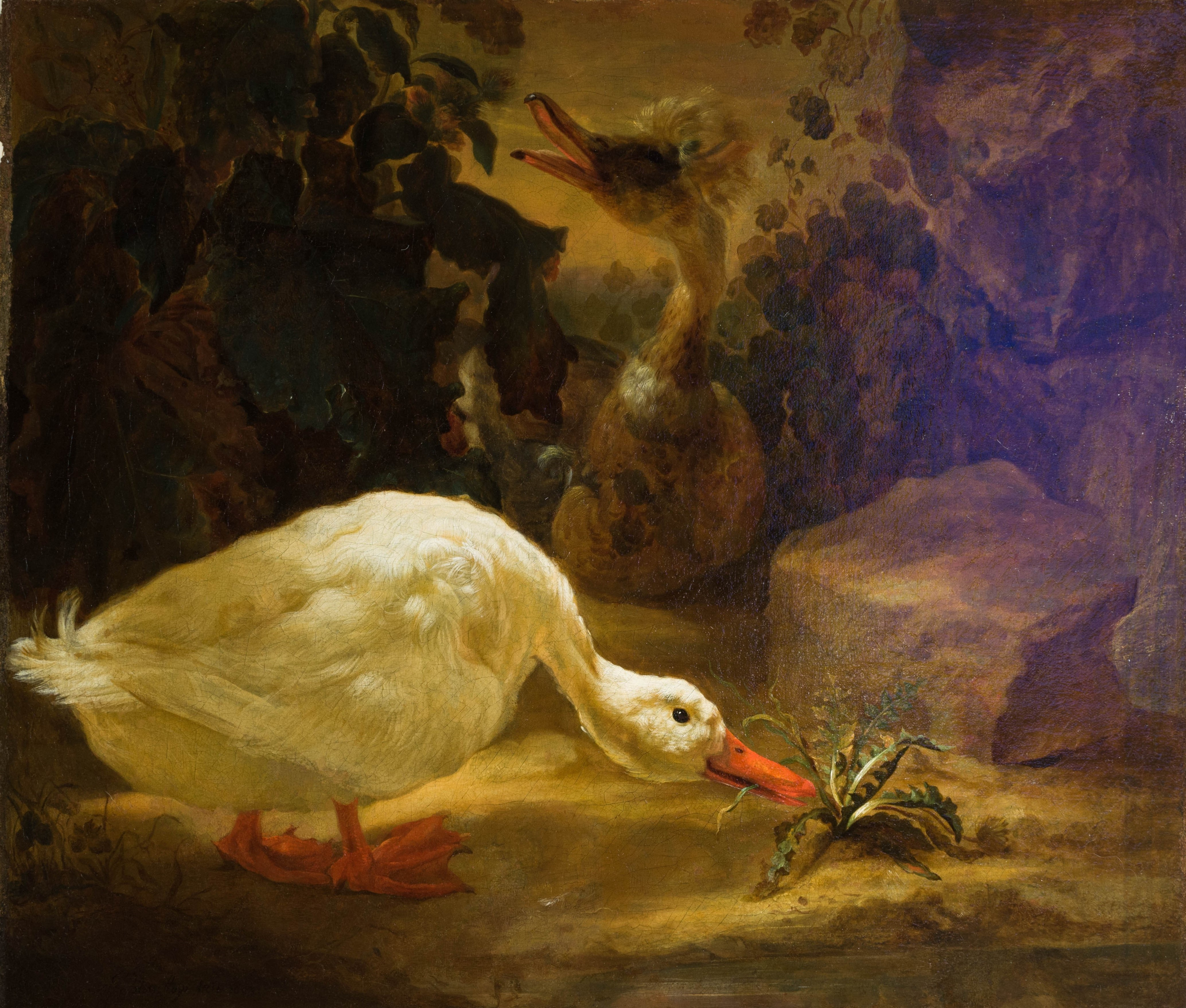 A painting of Abraham Busschop 1693